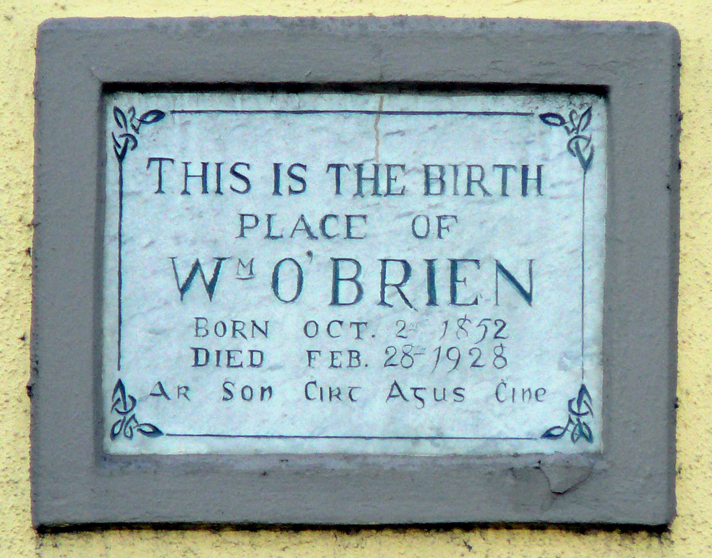 William O'Brien birthplace plaque, displayed on the wall of the house where he was born in 1852, Thomas Davis Street, Mallow, co Cork, Ireland